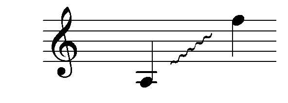 voice range of a mezzo-soprano